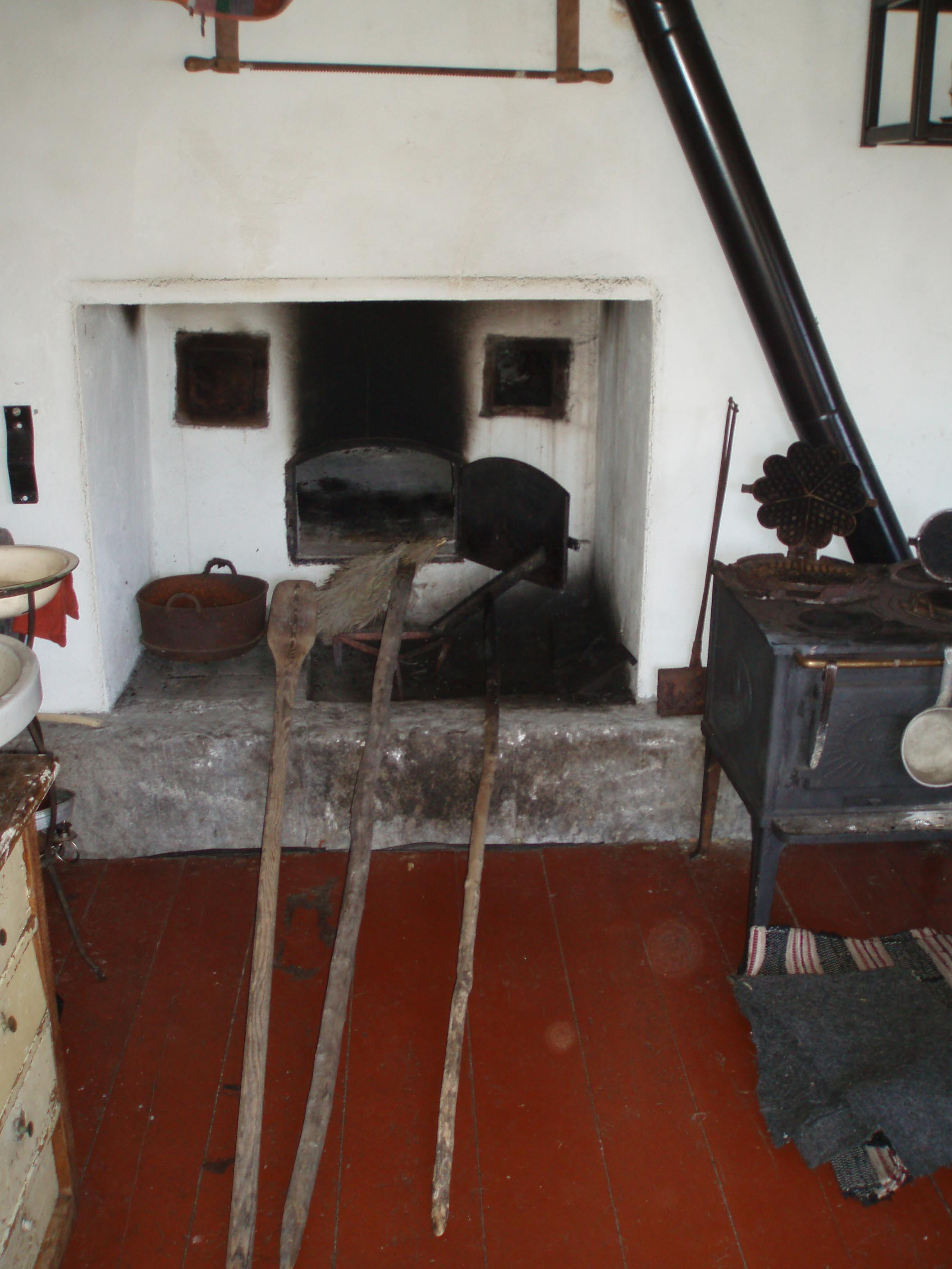 Inside "Eldhus".